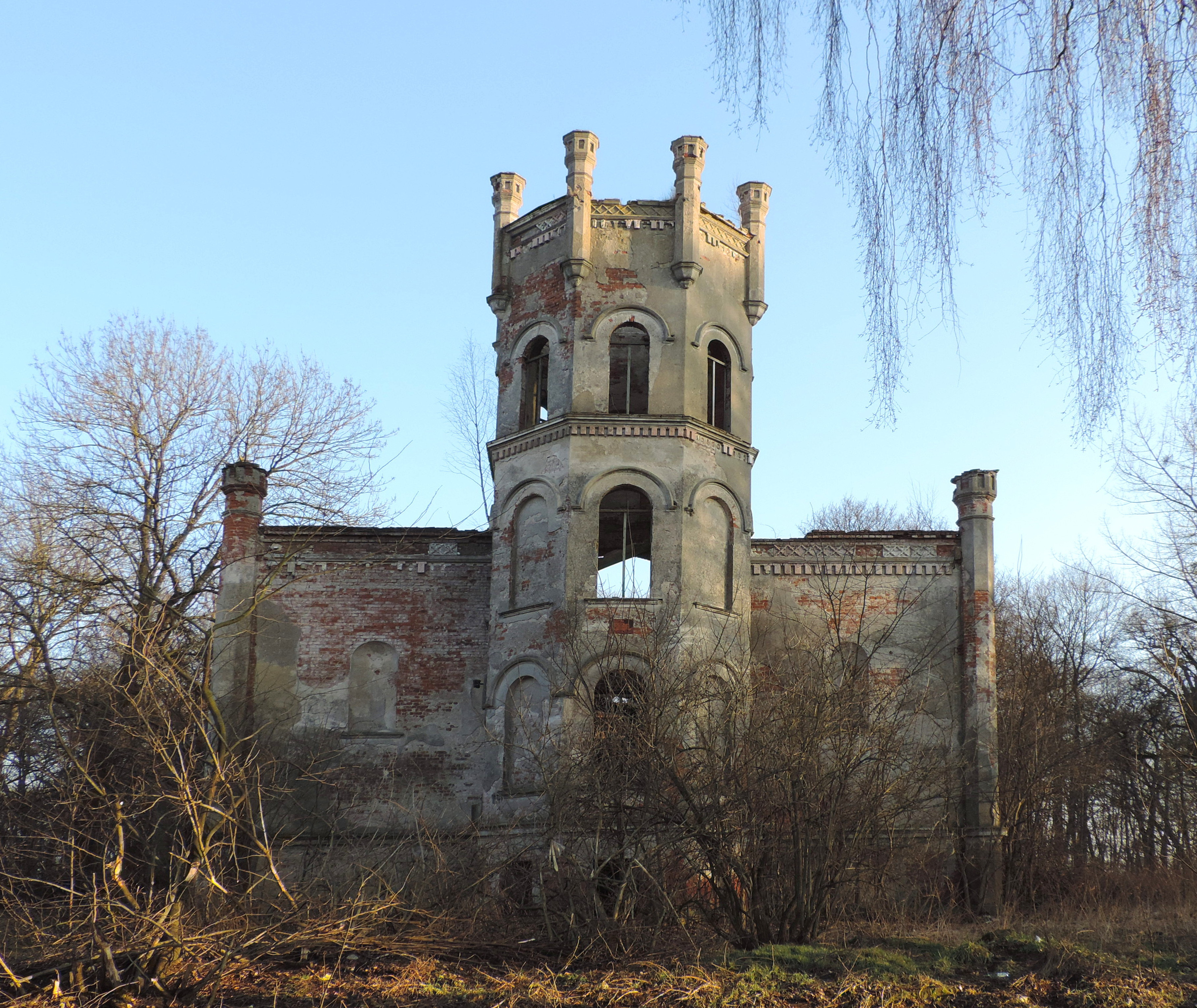 Ruins of palace in Sokoliniec, NW Poland